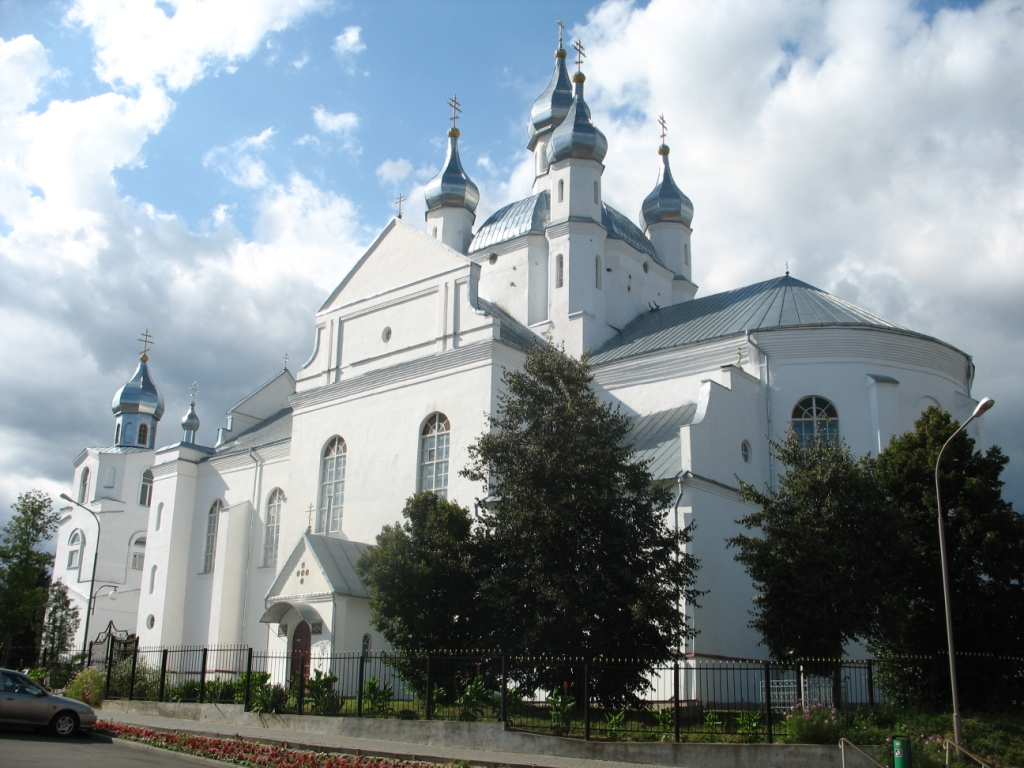 Church of Holy Trinity (Slonim, Belarus)